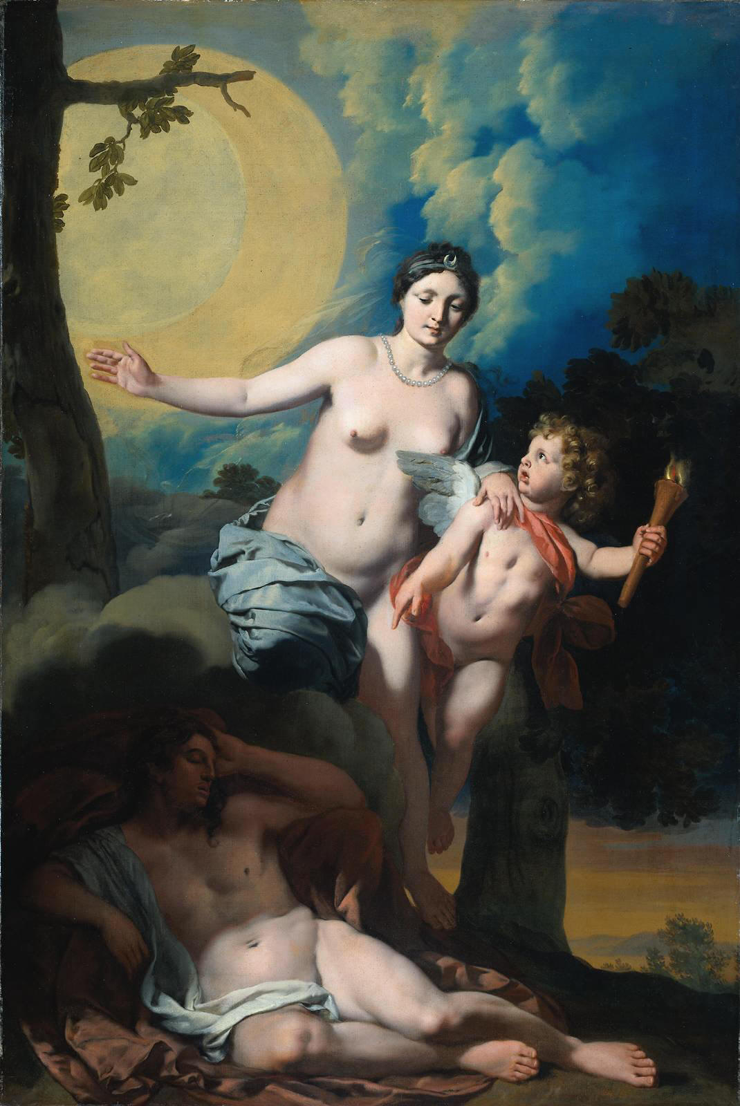 Selene and Endymion. Cupido holding a burning torch shows Selene (or Diana) the sleeping Endymion. Behind her the moon shines through the clouds. Mantlepiece commissioned between 1678 and 1682 for the bedchamber of Mary Stuart, later queen of England, at the hunting lodge of her husband, William III of Orange, the present Soestdijk Palace. For the two other surviving paintings by de Lairesse from this bedchamber, see File:Gerard de Lairesse 001.jpg and File:Gérard de Lairesse - Mercurius gelast Calypso om Odysseus te laten vertrekken.jpg.